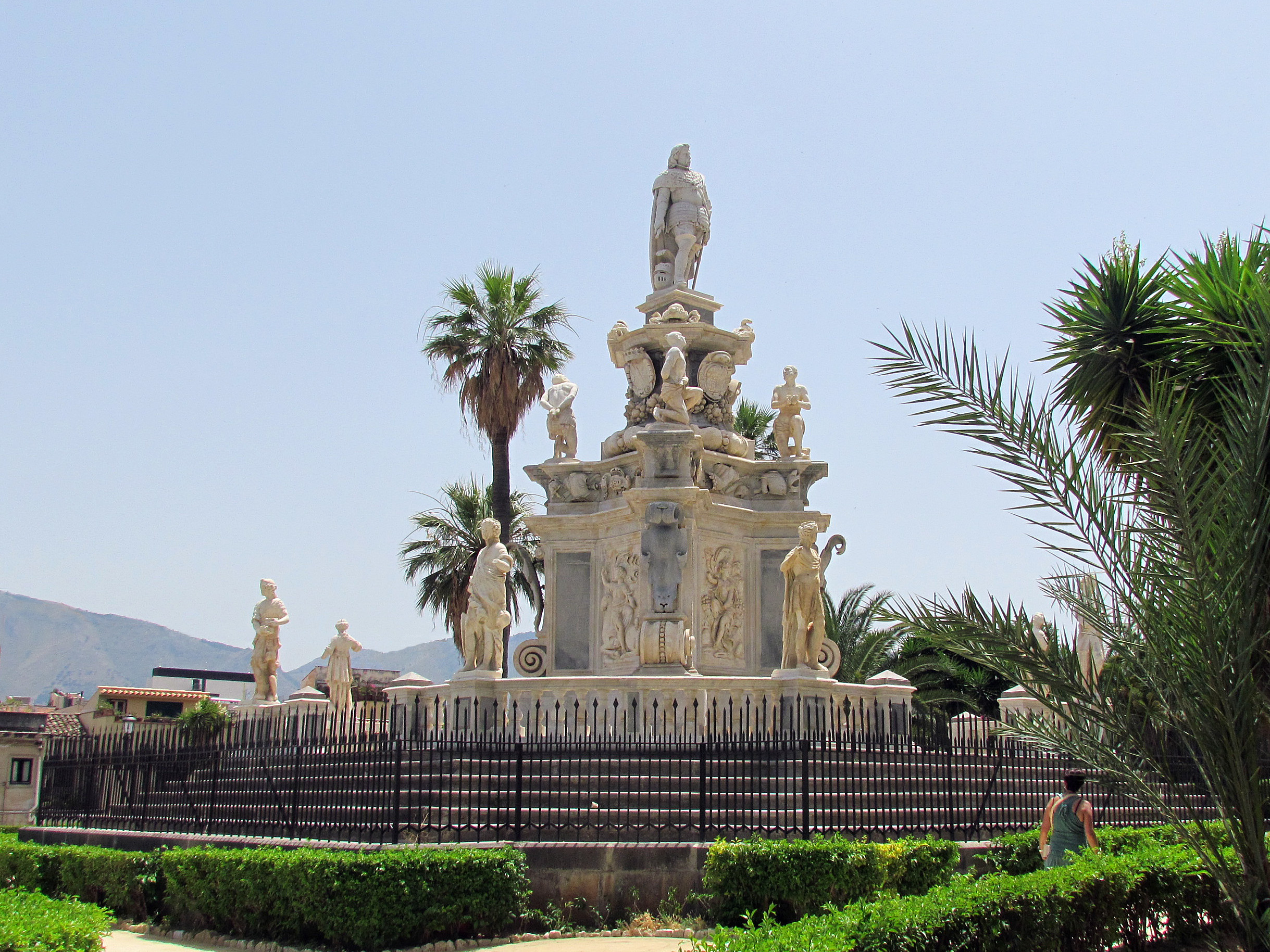 The Teatro Marmoreo fountain in Palermo, Italy